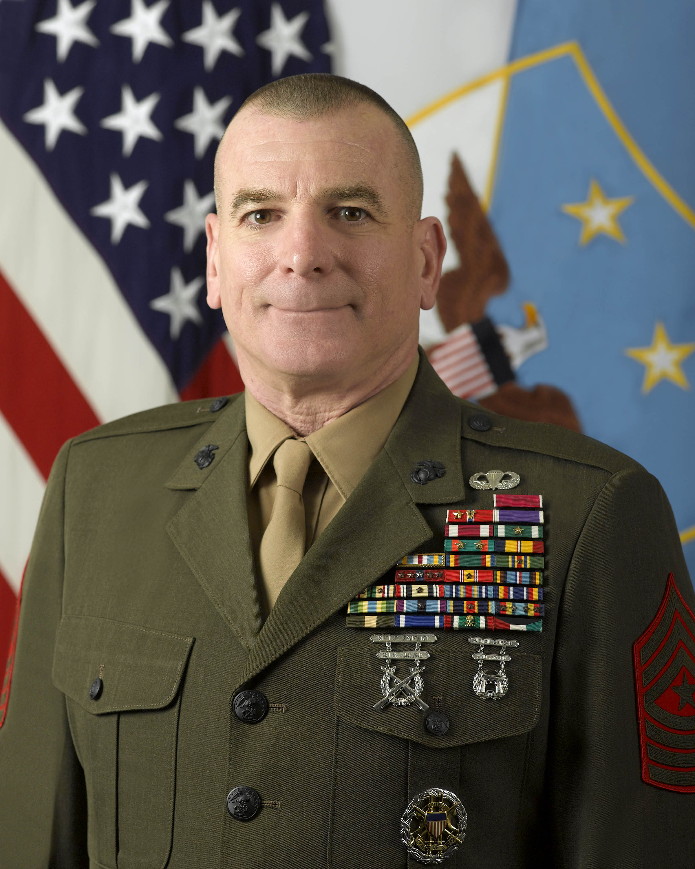 United States Marine Corps SgtMaj Bryan Battaglia, Senior Enlisted Advisor to the Chairman of the Joint Chiefs of Staff